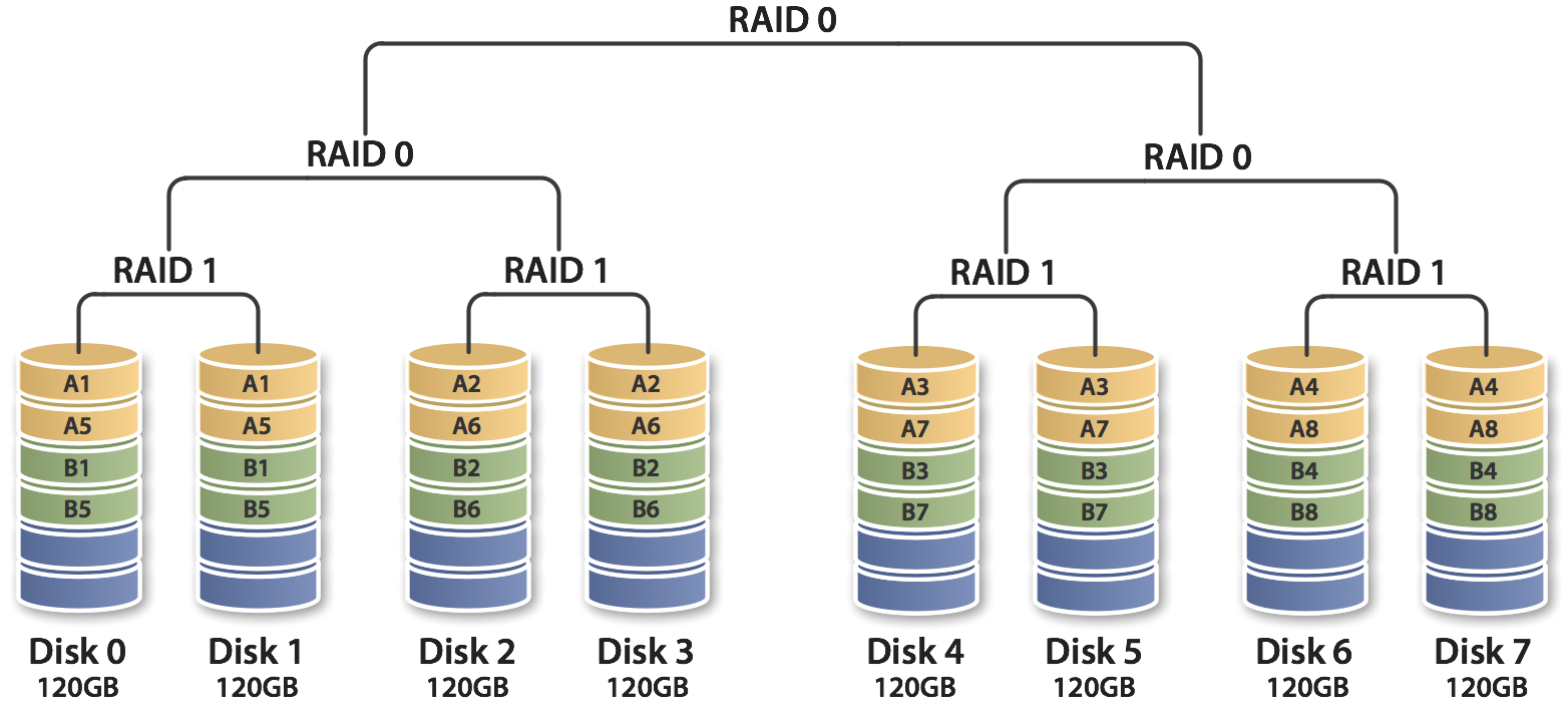 Diagram of a representative RAID-100 configuration